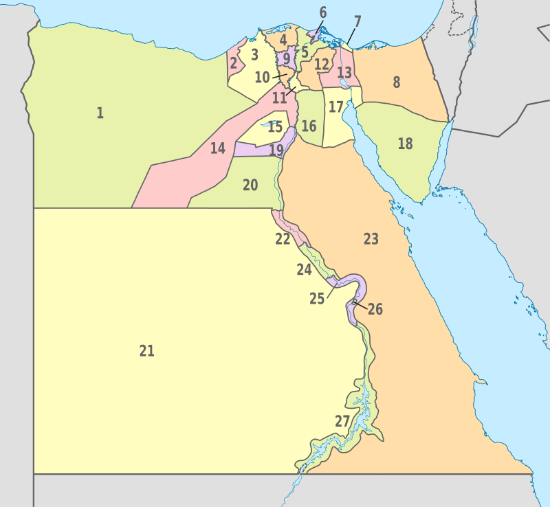 Egypt - Administrative Divisions - Nmbrs - colored